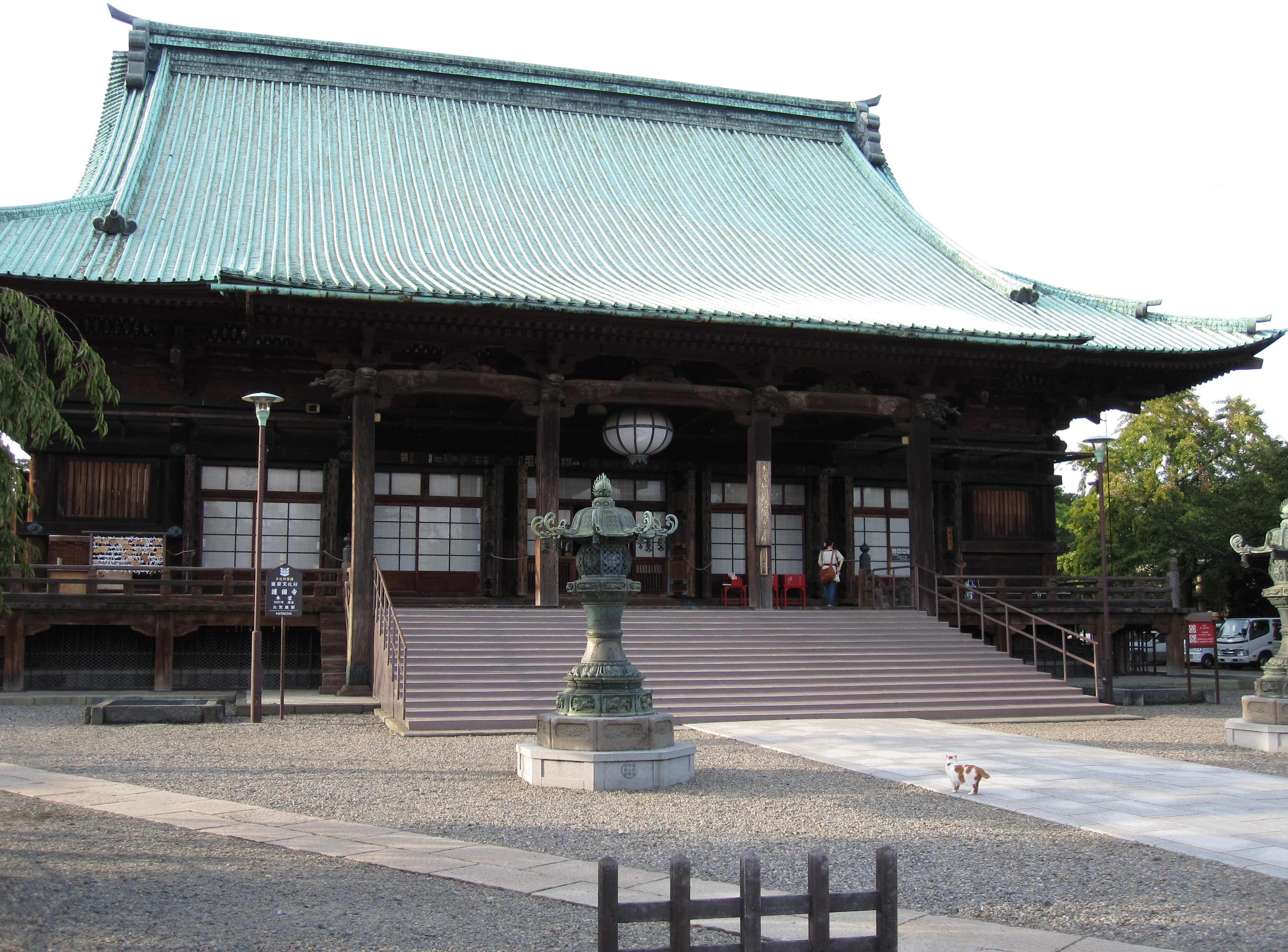 Main Hall (Japan's national important cultural property), Gokoku-ji